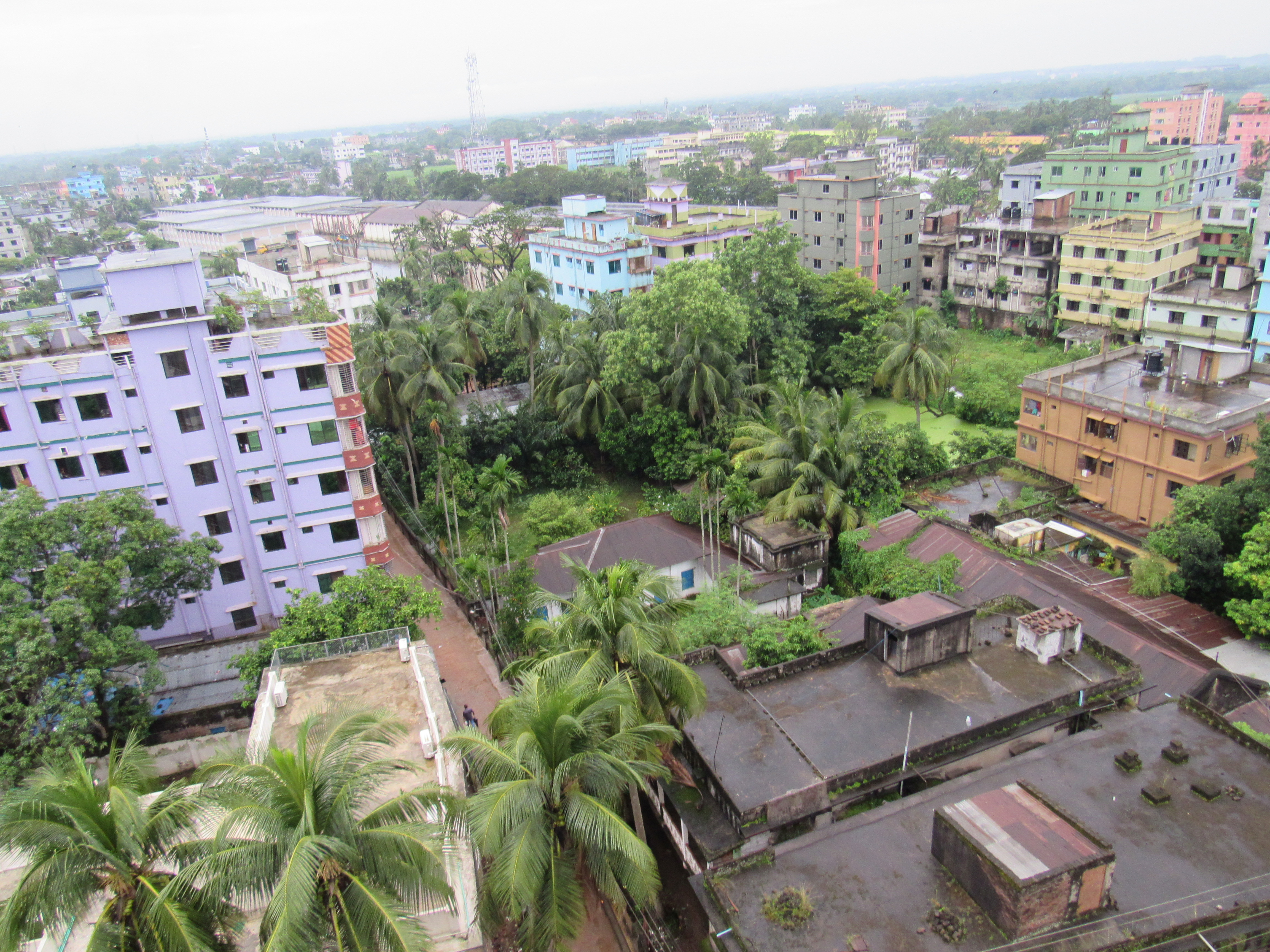 Aerial view of Comilla city from a high-rise building